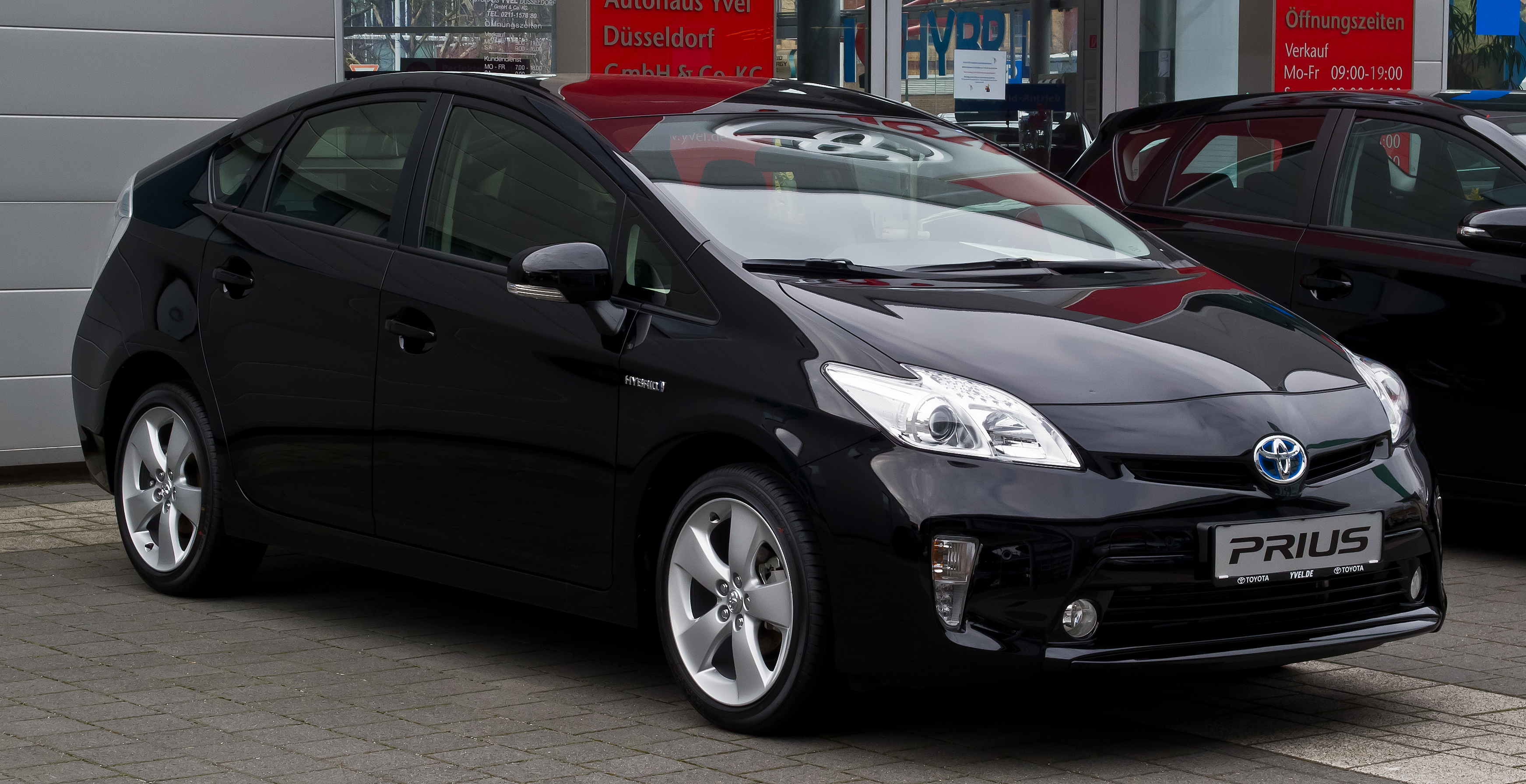 Toyota Prius Life (III, Facelift)